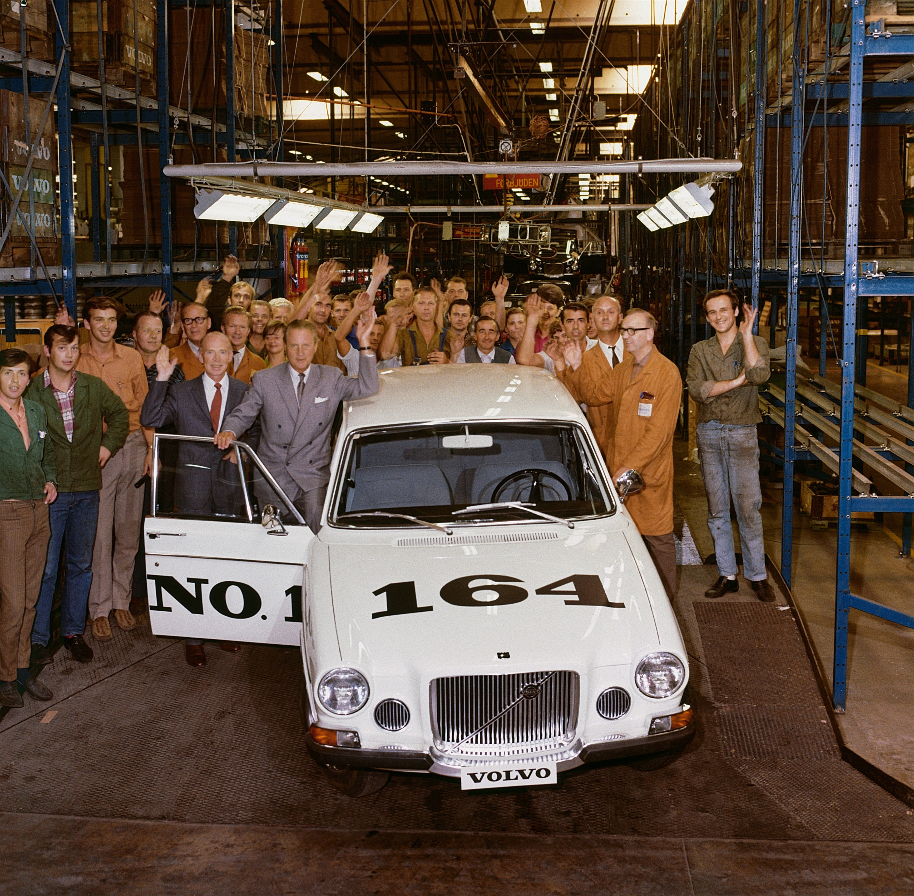 The first Volvo 164 to roll off the production line at Torslandaverken, Volvo's main assembly plant, in Gothenburg. The men in suits are Svante Simonsson (left) (Technical Manager of Volvo) and Gunnar Engellau (CEO of Volvo).